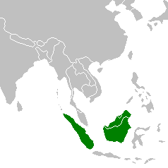 Bornean clouded leopard Neofelis diardi range